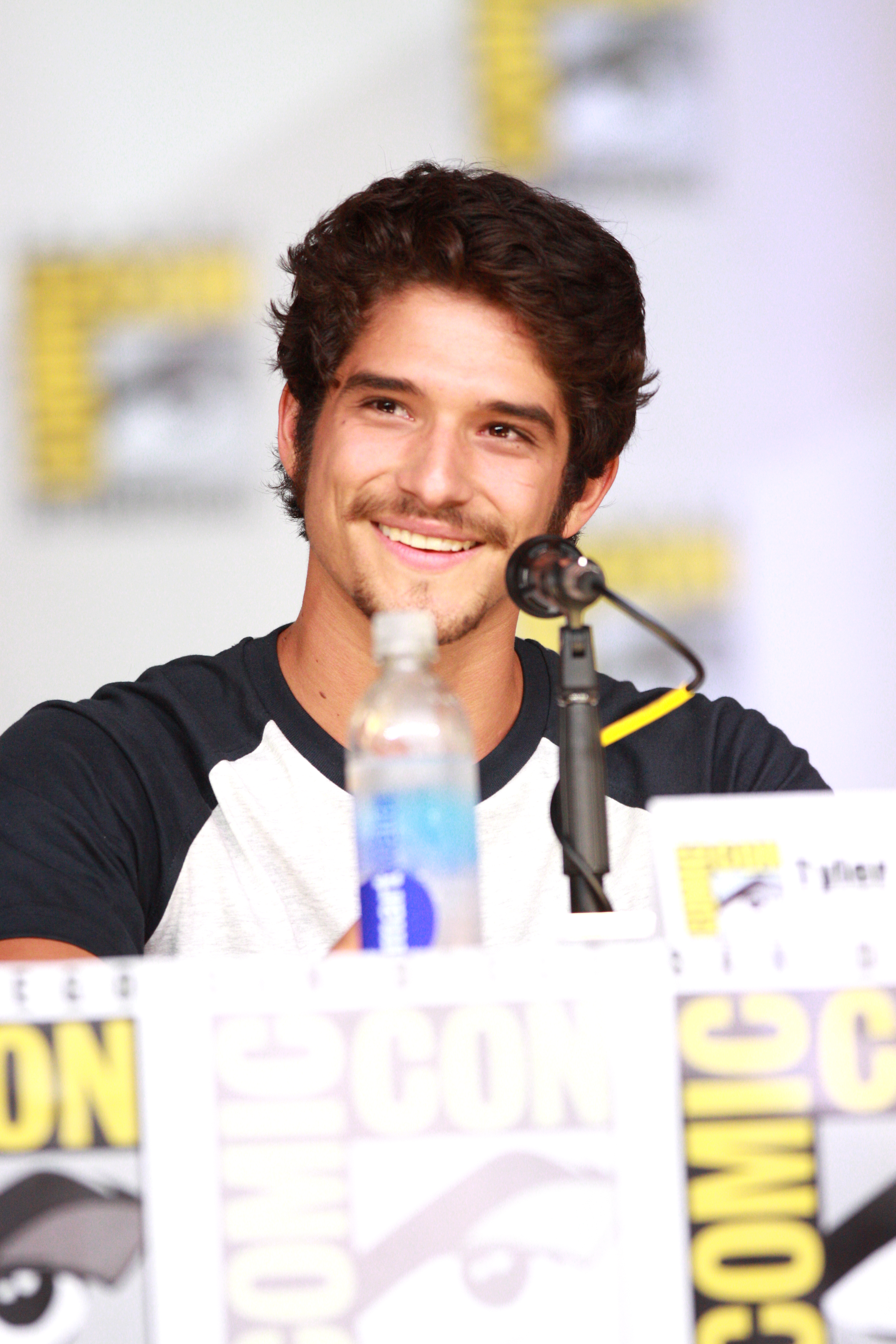 Tyler Posey speaking at the 2013 San Diego Comic Con International, for Entertainment Weekly's "Brave New Warriors" panel, at the San Diego Convention Center in San Diego, California.